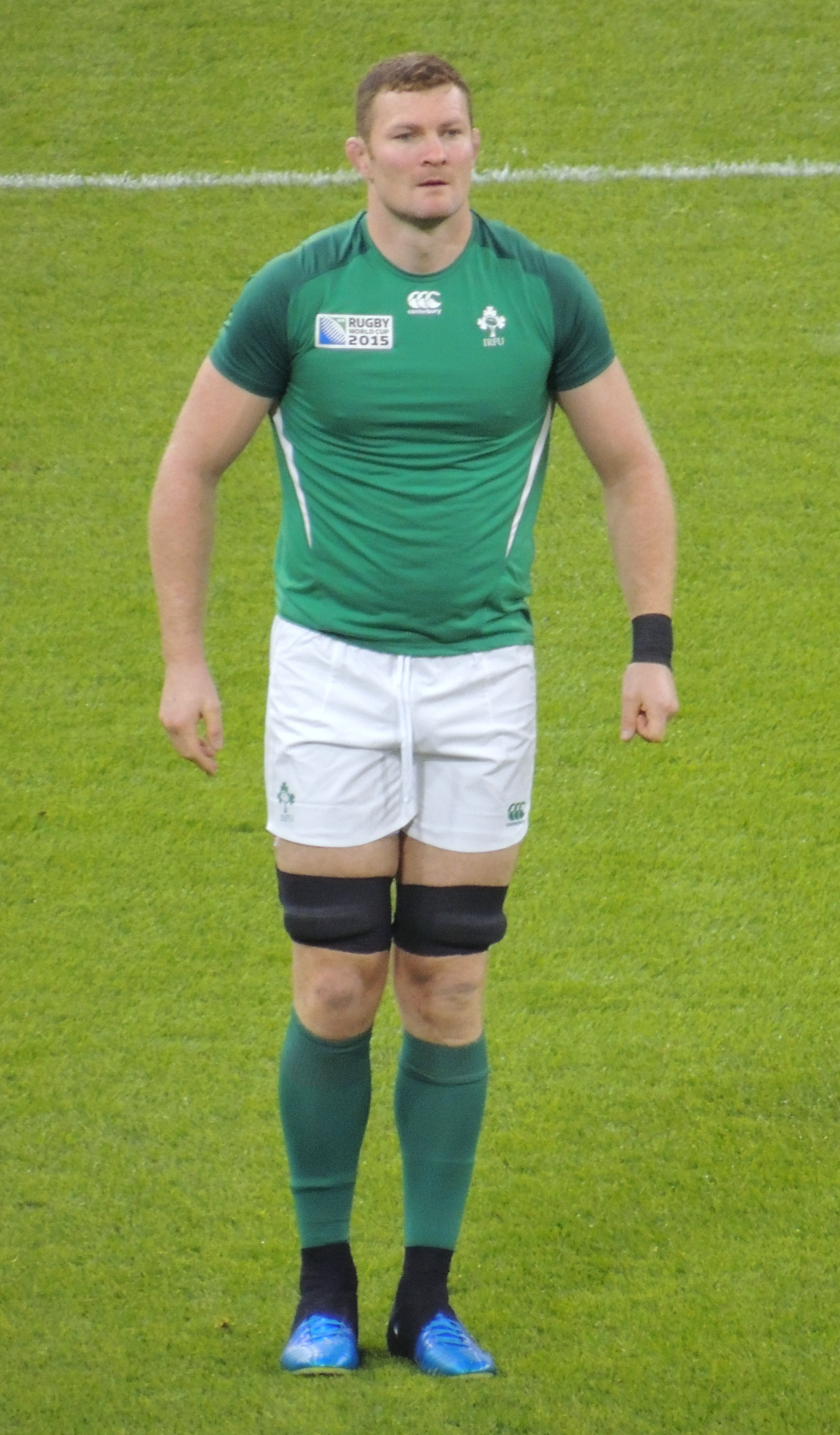 Irish rugby union player Donnacha Ryan playing in 2015 Rugby World Cup game Ireland vs Canada at Millennium Stadium in Cardiff.